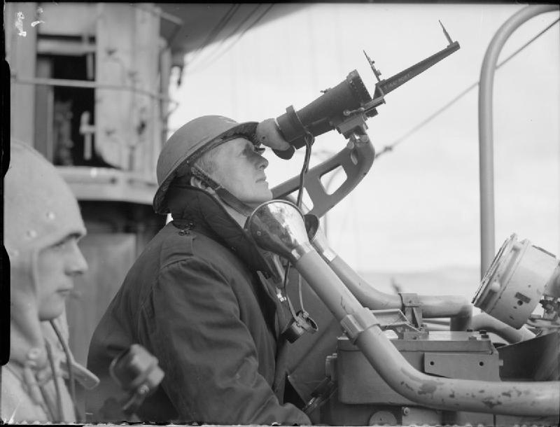 The Royal Navy during the Second World War The Air Defence officer on board HMS PRINCE OF WALES looking into a set of binoculars. Note the speaking tube in the foreground.